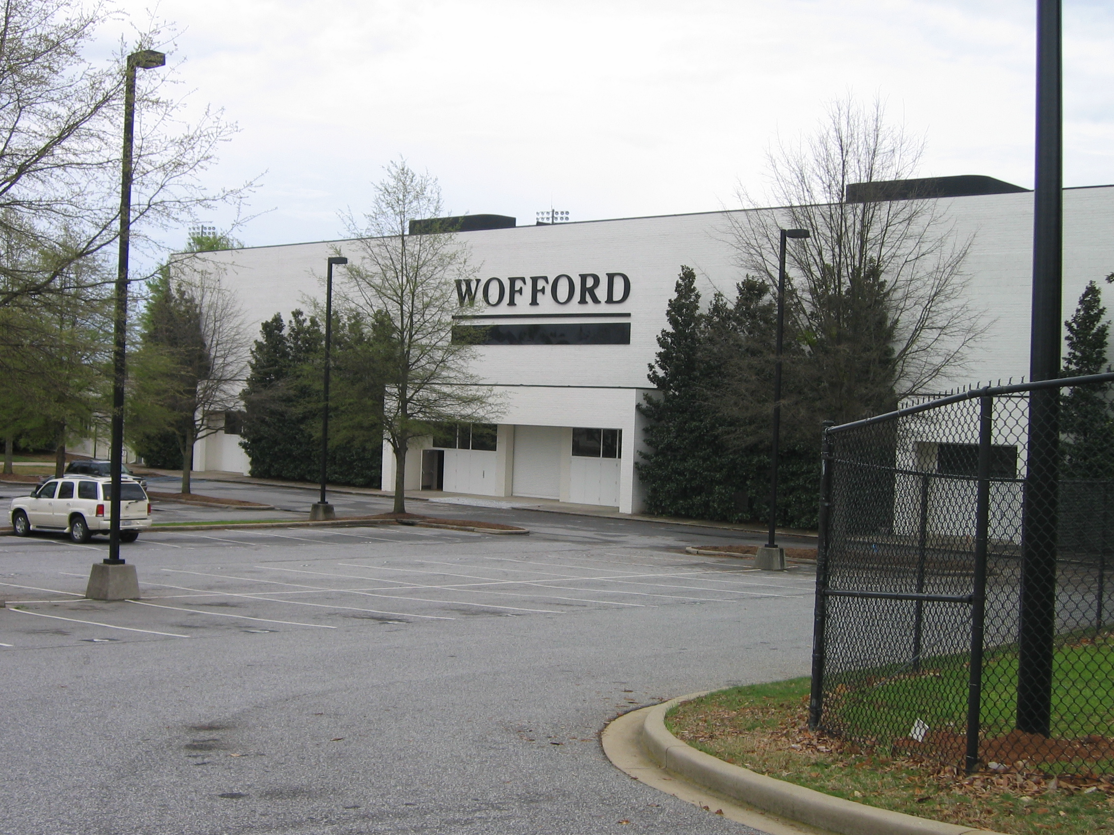 Football & Basketball Facilities Wofford Varsity Gym